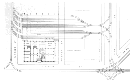 Diagram of the Indianapolis Traction Terminal complex including train shed, waiting platform, and office building.